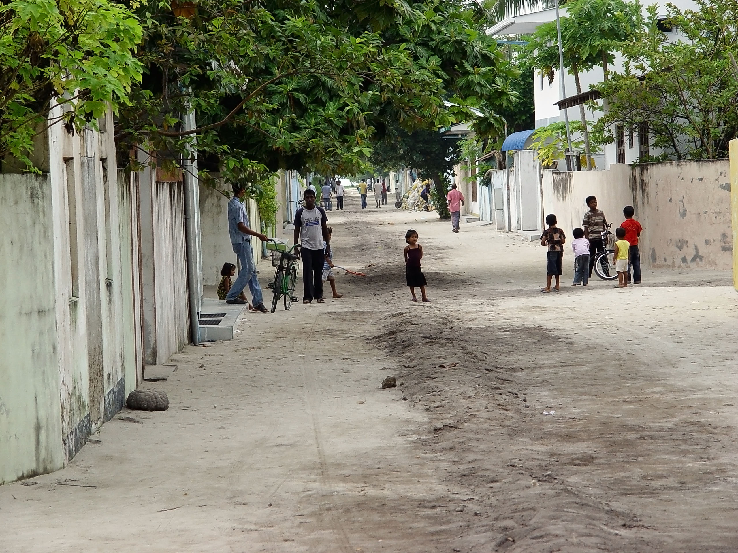 Mahibadhoo main street